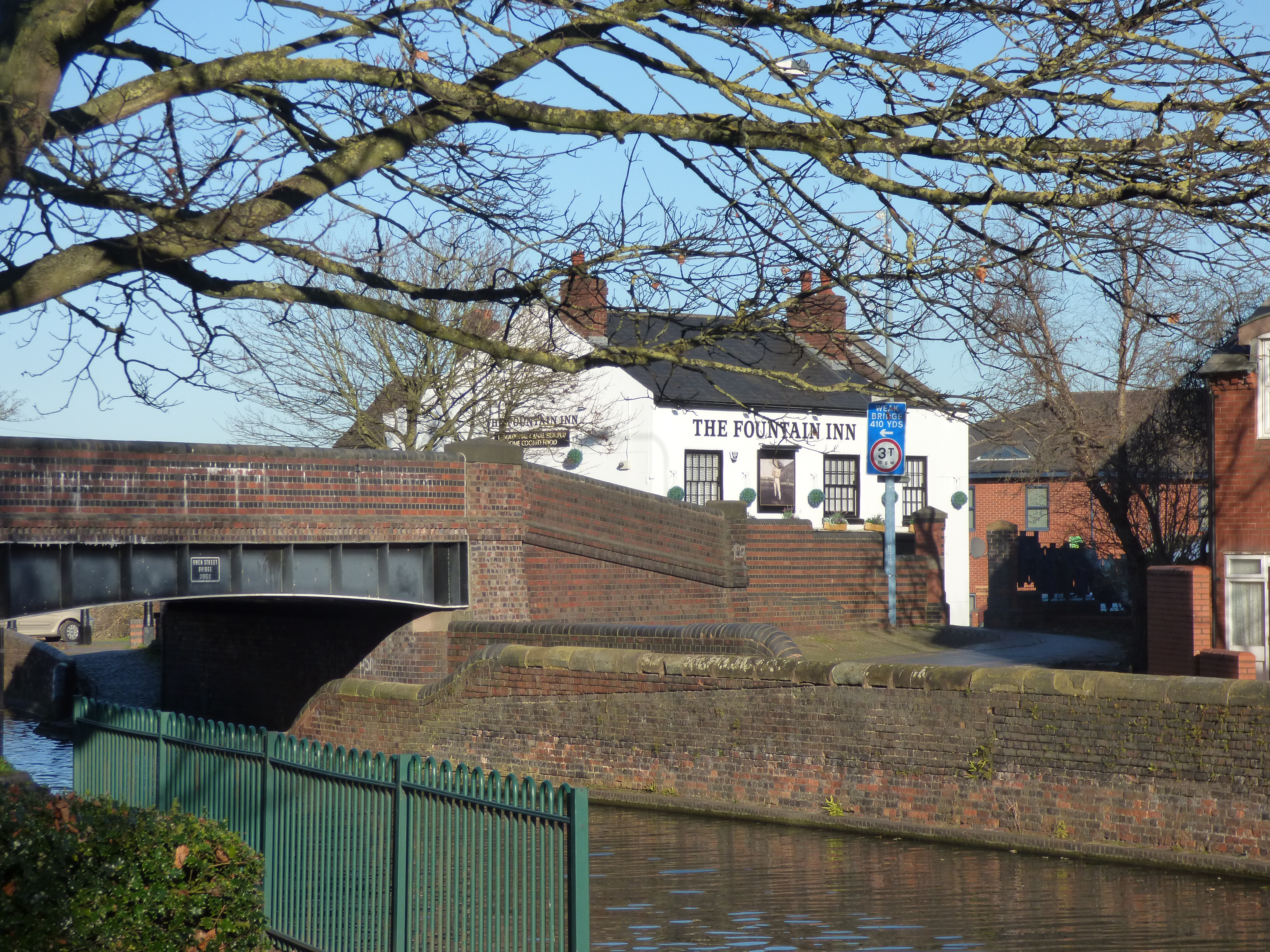 I got onto the Birmingham Canal Navigations Old Main Line in Tipton at a bridge on Baker Street then walked as far as the Tipton Green Bridge. And then past Coronation Gardens to the Owen Street Bridge. It was a nice and sunny day but was very cold! Tipton Green Junction seen between the Tipton Green Bridge and the Owen Street Bridge. Coronation Gardens runs along one side of this section. Owen Street Bridge The Fountain Inn - the pub is a Grade II Listed Building. The Fountain Inn Public House Listing Text SANDWELL MB OWEN STREET SO 99 SE Tipton 4/124 The Fountain Inn Public House and No 52 10.2.82 II Public house. Early C19. Brick, rendered at front and painted at rear, with slate roof. Two storeys, two bays. Facade has boxed sashes with glazing bars on first floor. On the ground floor is a timber public house front, probably later C19, with pilasters and an entablature, and with a narrow window at the right, possibly replacing a door. The doorway, with a mid-C20 surround, is between the two main ground floor windows. The facade overlaps with No 52 to the right, which has a shop front on the ground floor and two boxed sashes with glazing bars on the first floor. Chimneys on gables of Fountain Inn, and to right of No 52, which has a lower roof line. At the rear are two wings, with brick dentil eaves and with some sashed windows with glazing bars. From 1836 the Inn served as the headquarters of William Perry, the "Tipton Slasher", boxing champion of England 1850-57. Internally the Fountain Inn extends above part of No 52. Listing NGR: SO9535392320 This text is from the original listing, and may not necessarily reflect the current setting of the building.